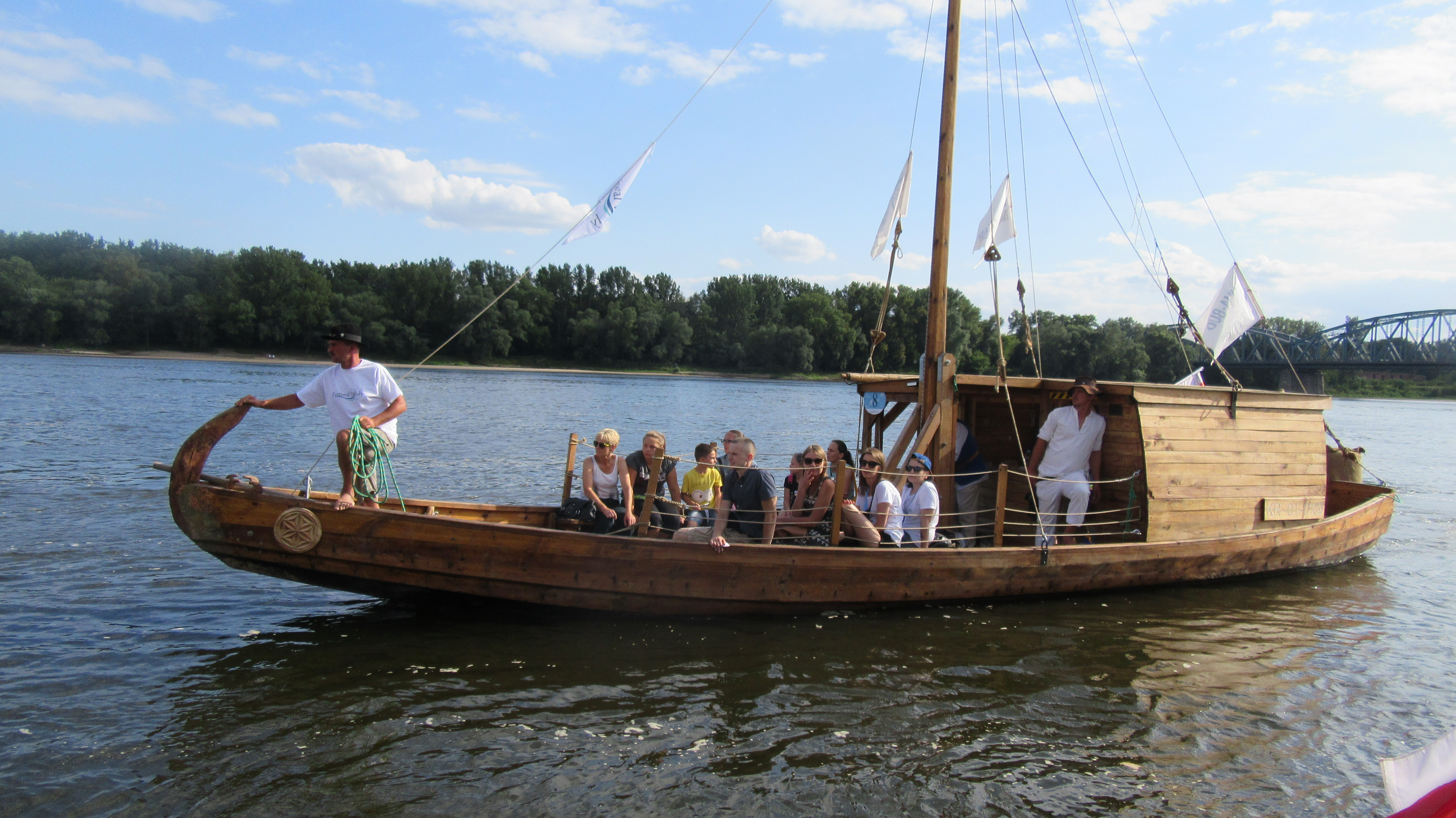 Vistula Festival in Toruń, Poland. 2017. Replicas of boats used on Vistula in XV-XIX century.